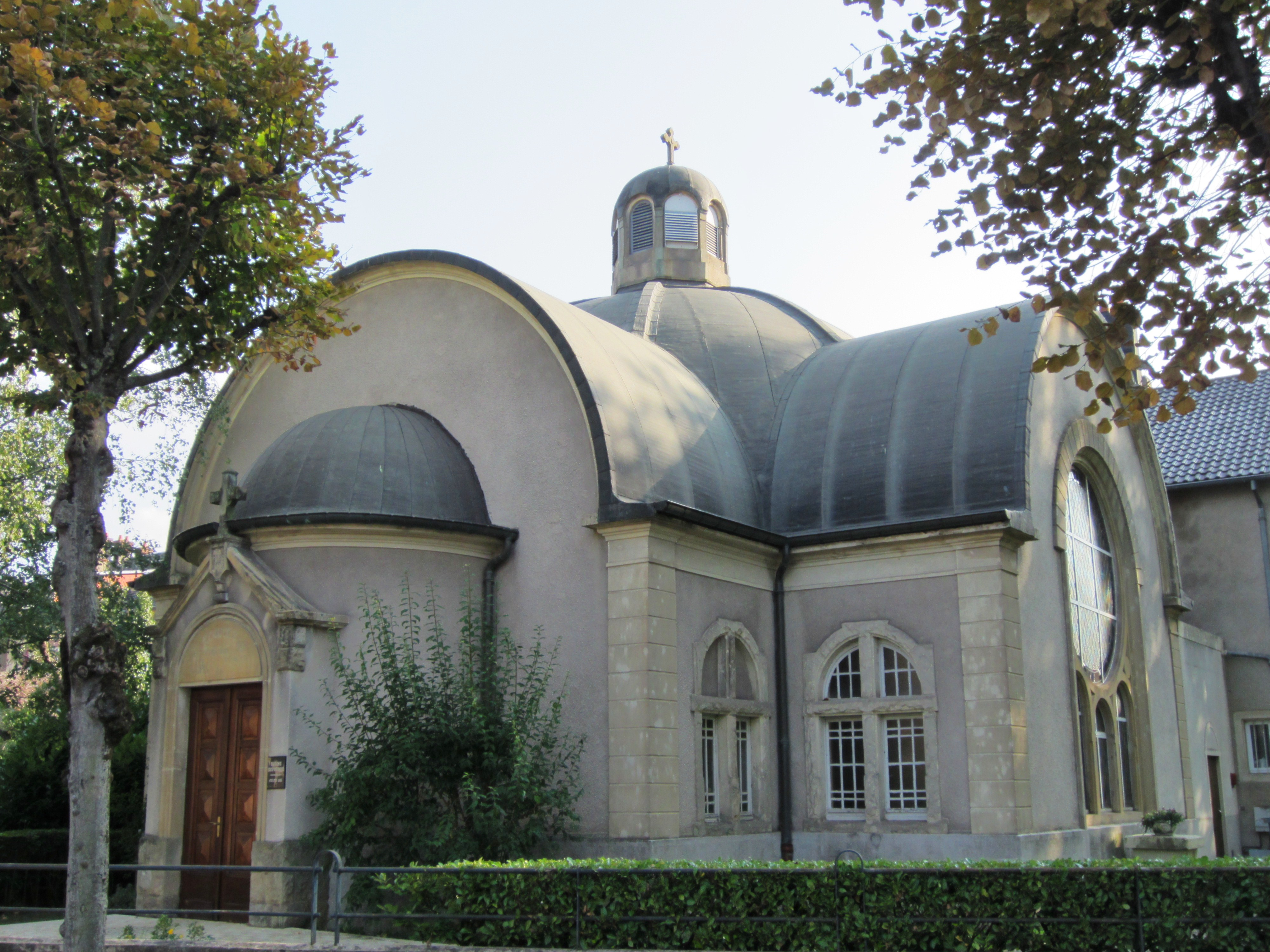 Description temple yutz Date26 August 2011Sourcemon appareil photoAuthorAimelaimePermission(Reusing this file) temple yutz